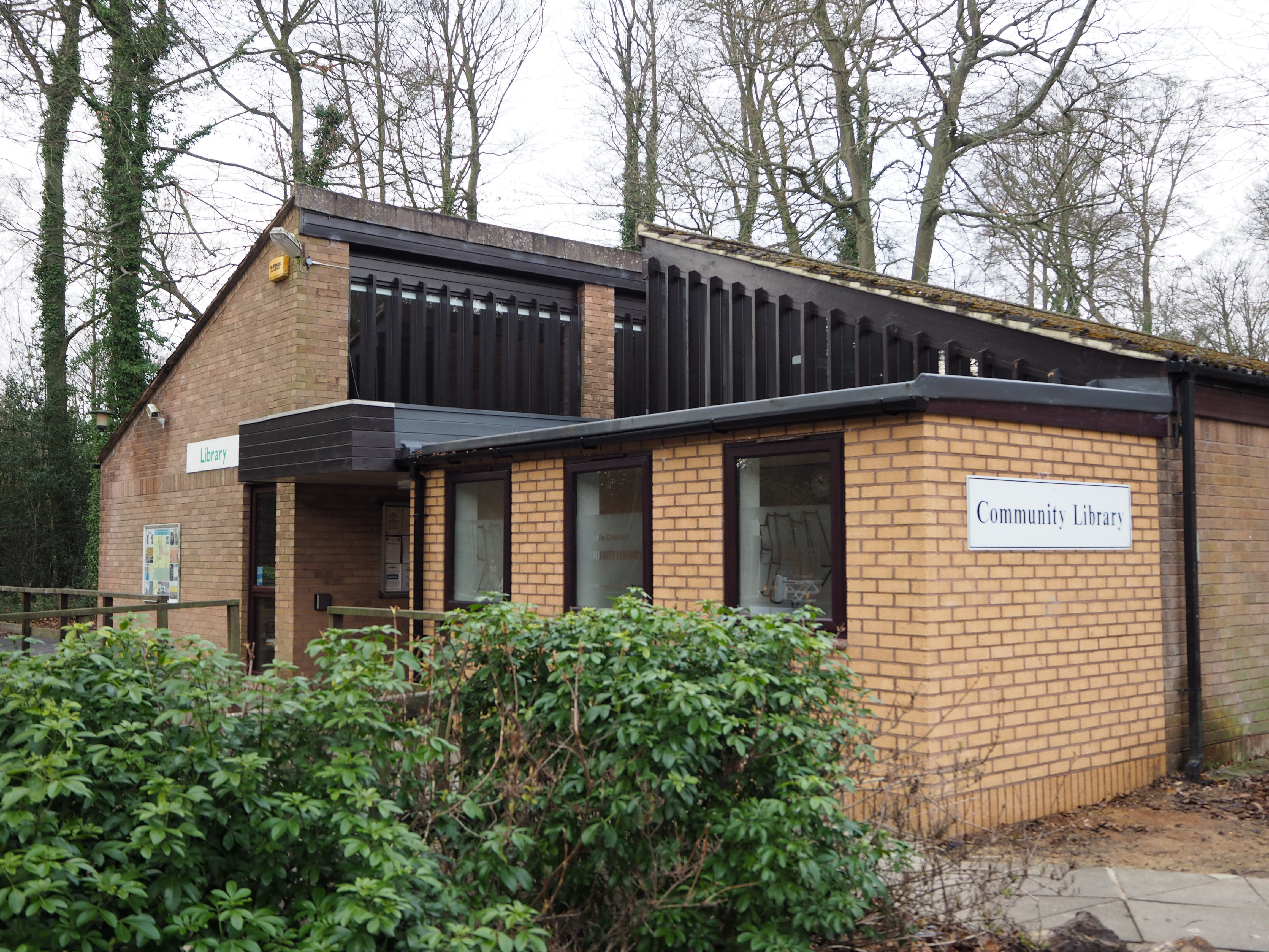 Little Chalfont Community Library showing the new computer room.